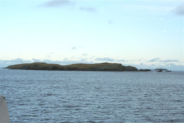 Mooa